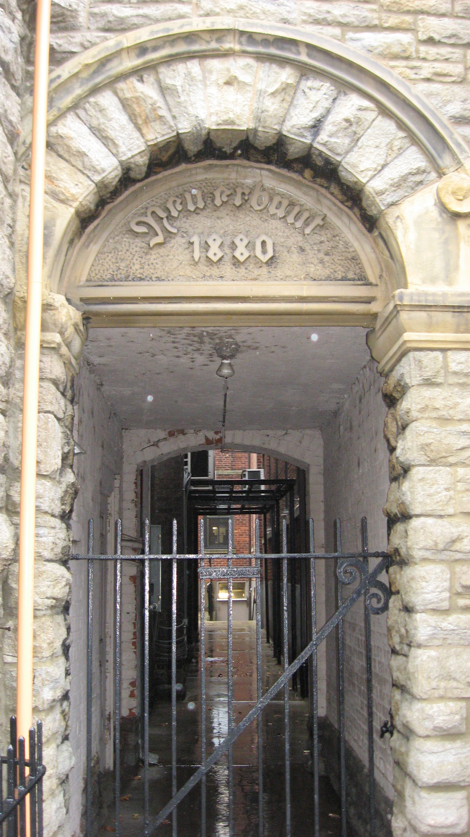 A small entrance on the southern end of the front of the First German Methodist Episcopal Church (now Nast Trinity United Methodist Church), located at 1310 Race Street in the Over-the-Rhine neighborhood of Cincinnati, Ohio, United States. Built in 1881, it is listed on the National Register of Historic Places, and it is part of the Register-listed Over-the-Rhine Historic District.